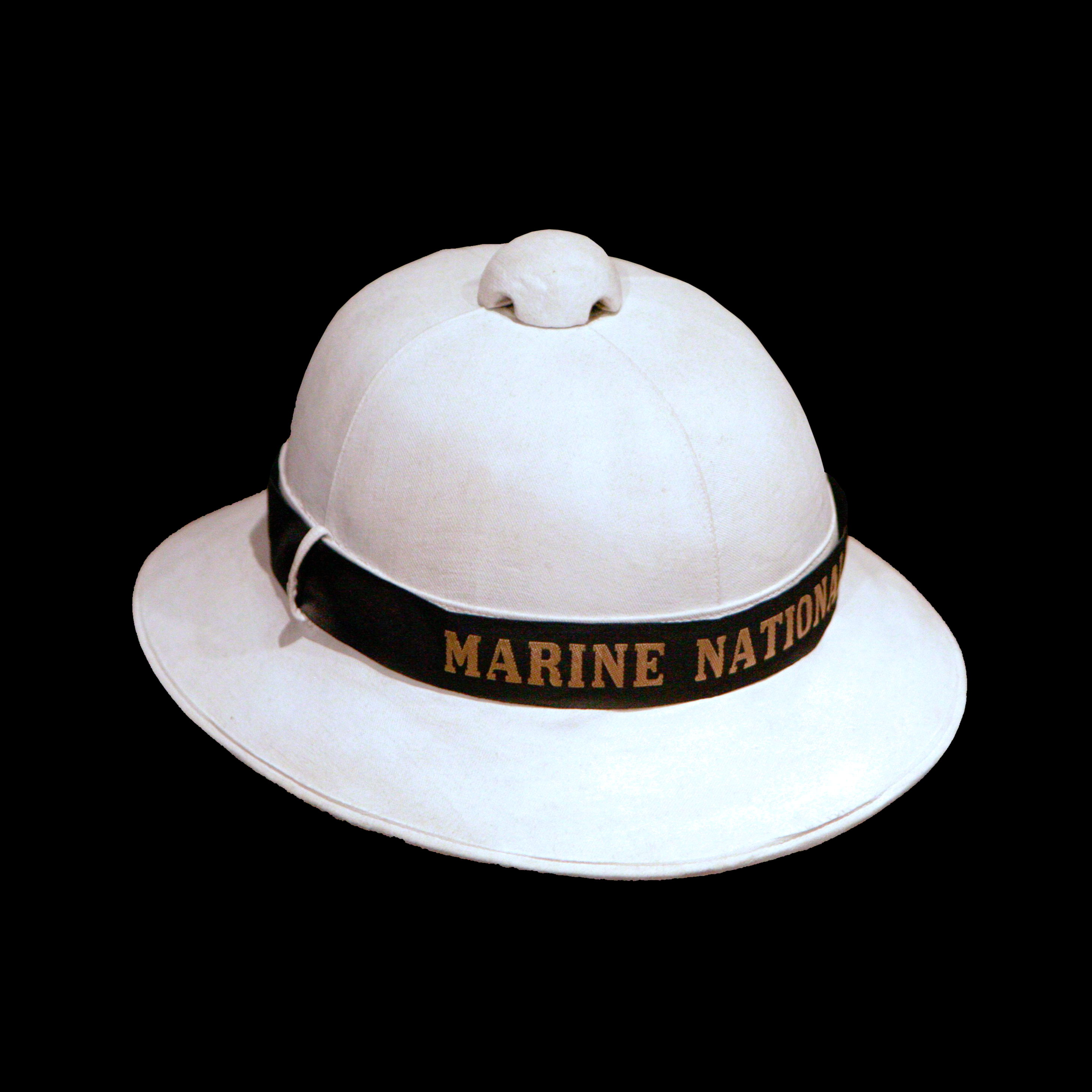 French Navy pith helmet of the early 20th century. On display at Toulon naval museum, access number 49 AR 91